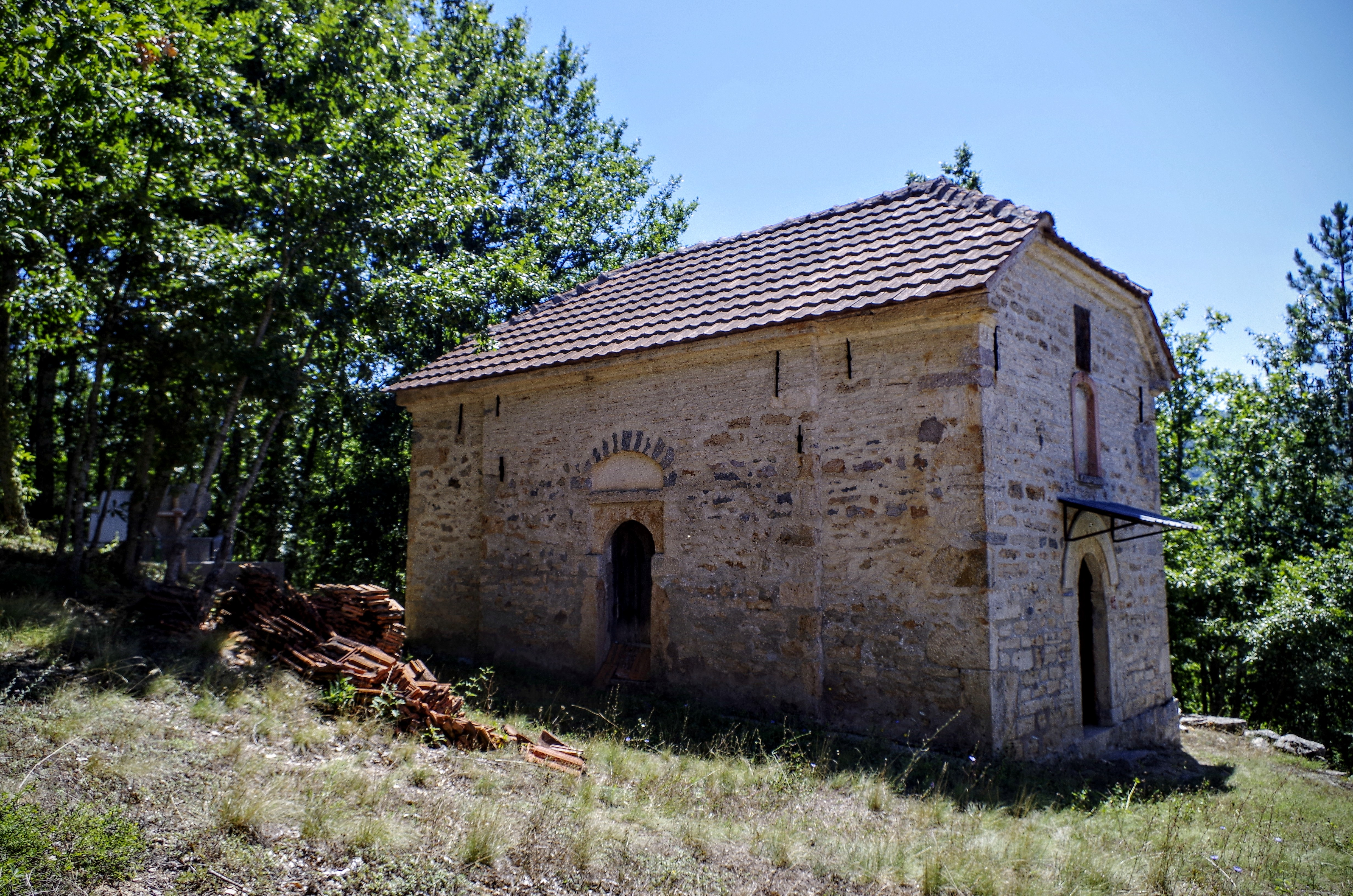 View of St. George's Church in the village Grko Pole